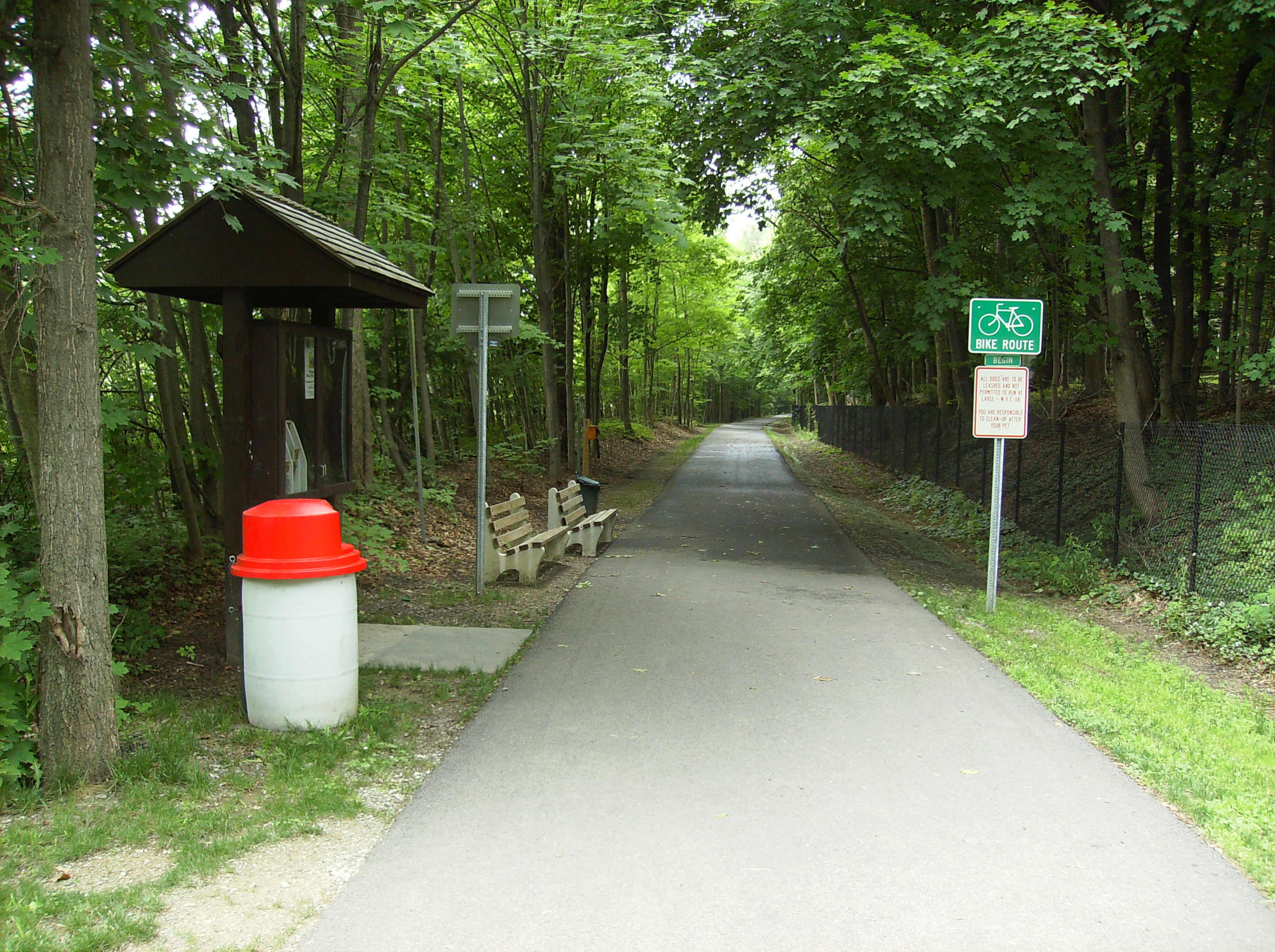 The trailhead of the Walden–Wallkill Rail Trail in the village of Walden in the town of Montgomery, New York.